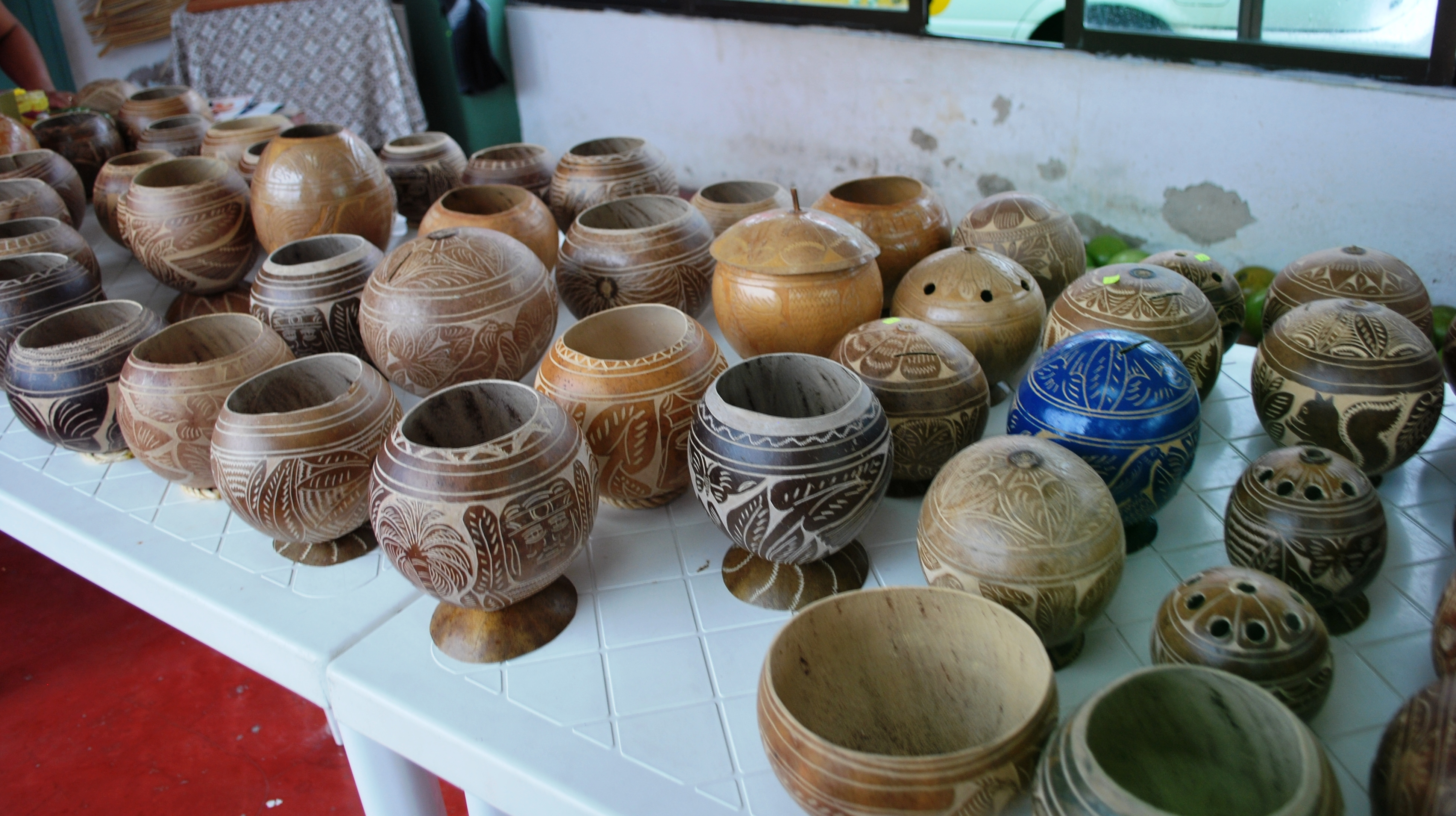 Gourd crafts for sale in Jalpa de Méndez, Tabasco